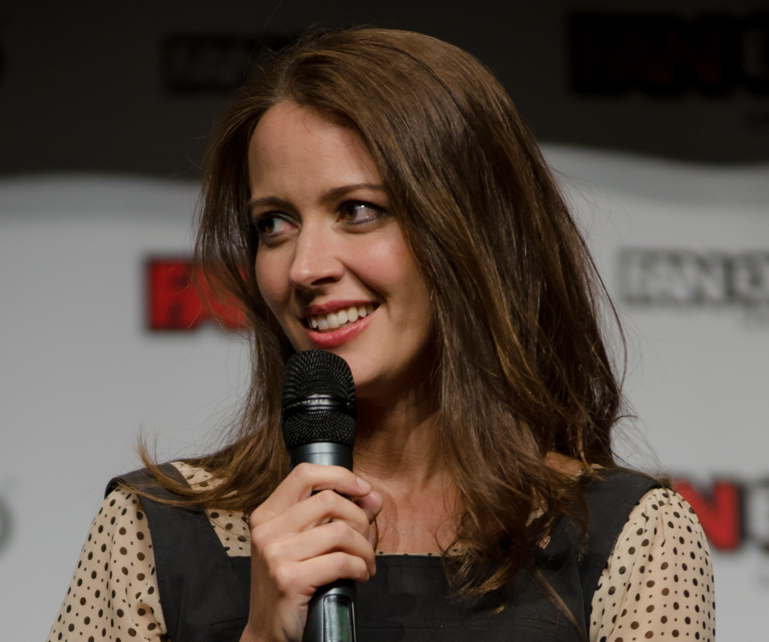 Amy Acker at Fan Expo 2015